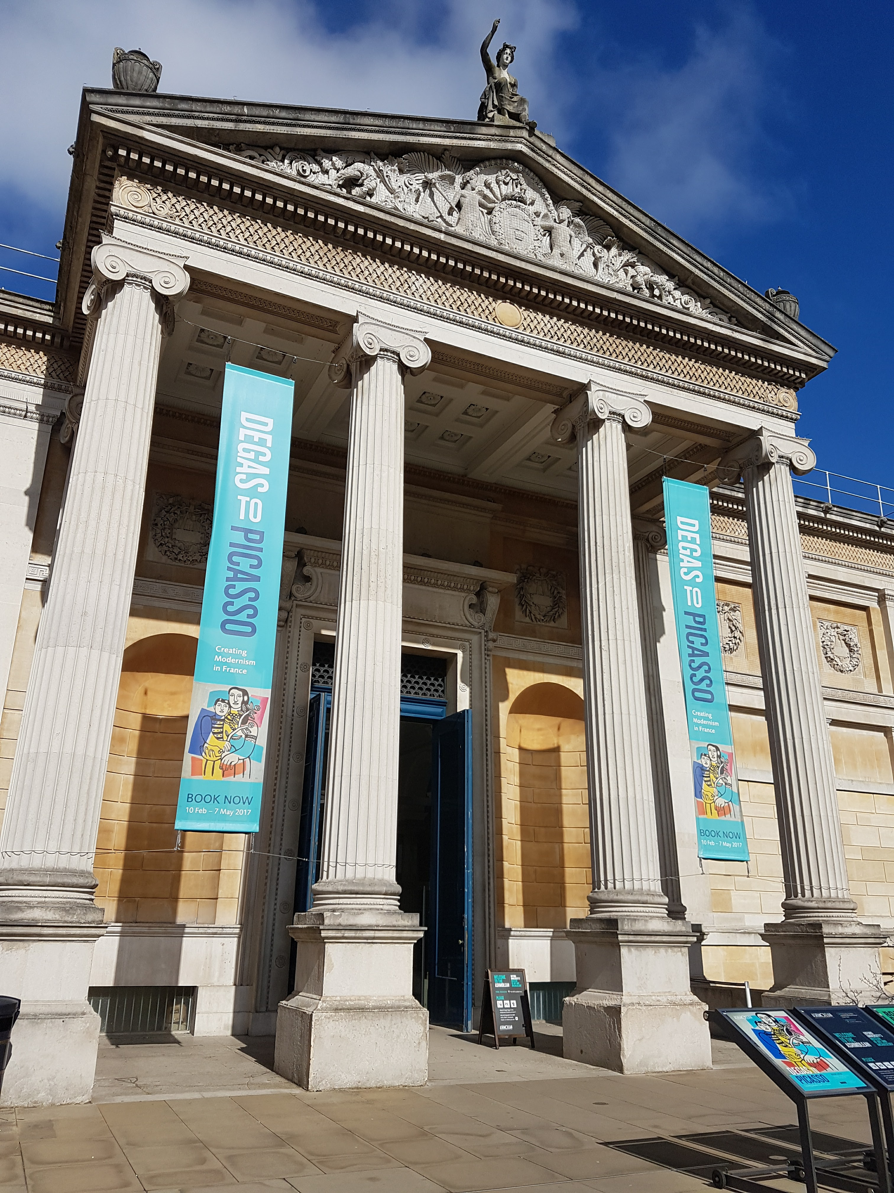 Ashmolean museum front entrance, Oxford